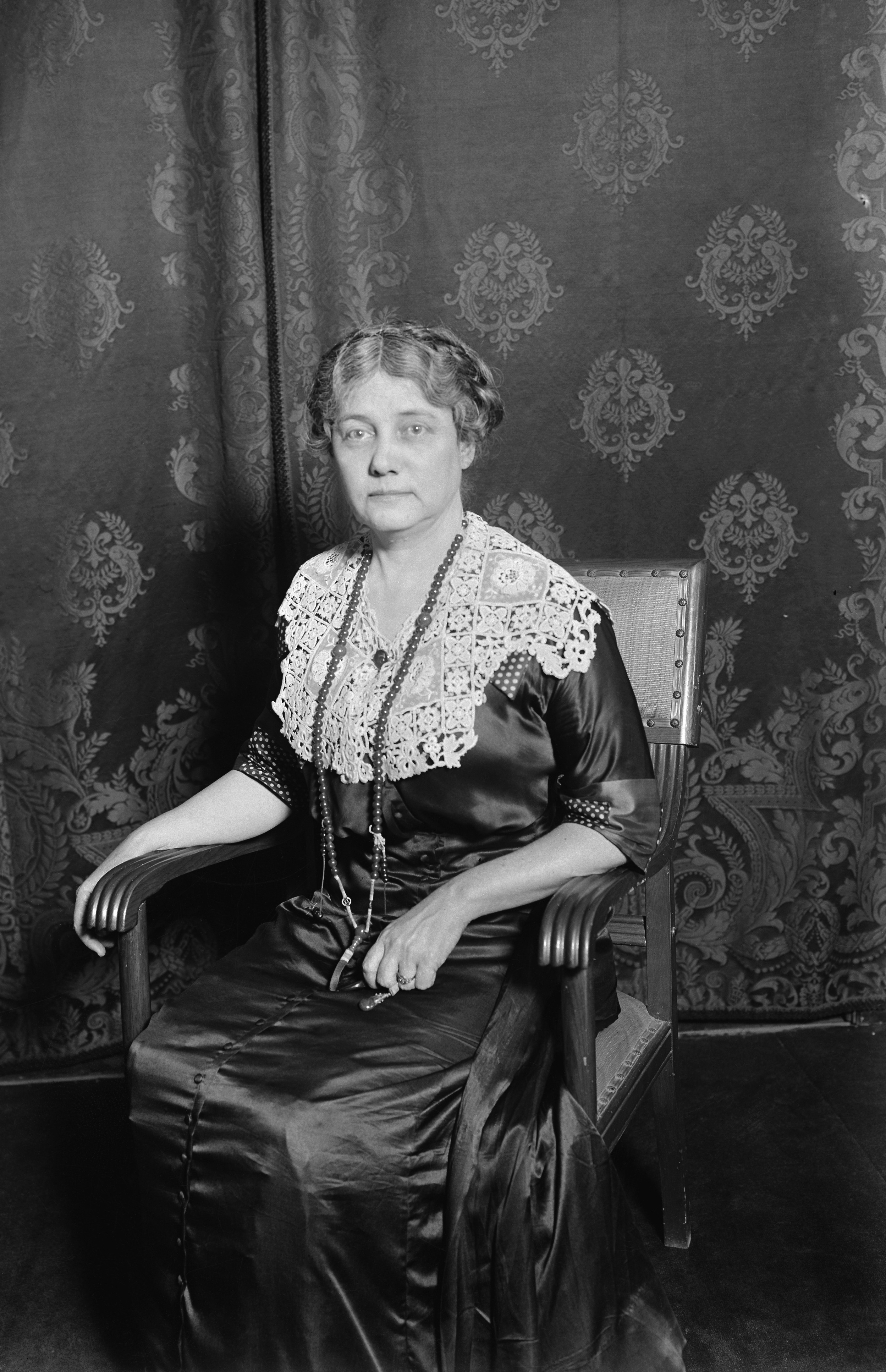 Nellie Bly in her later years